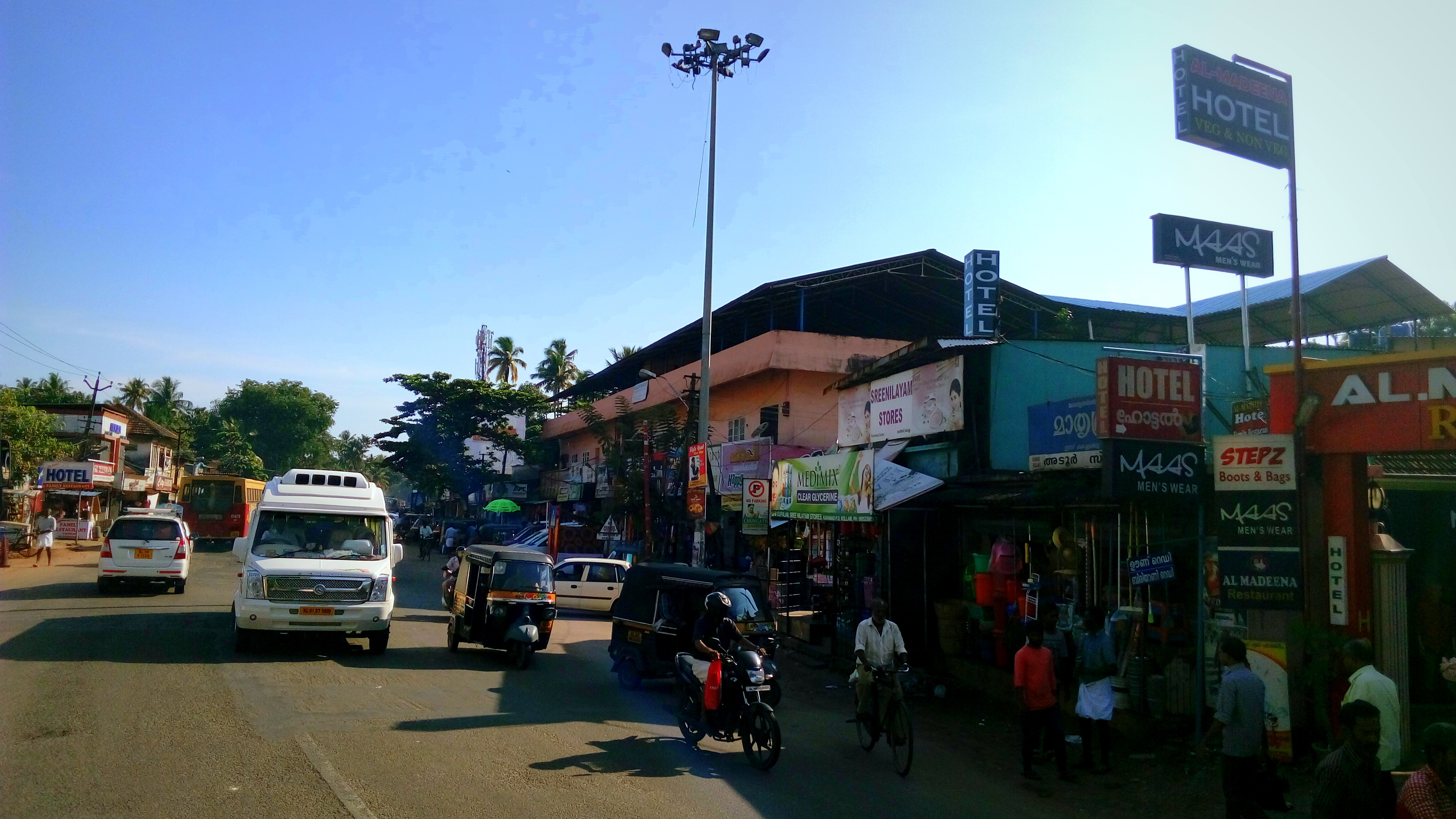 Kavanad is a neighbourhood of Kollam city